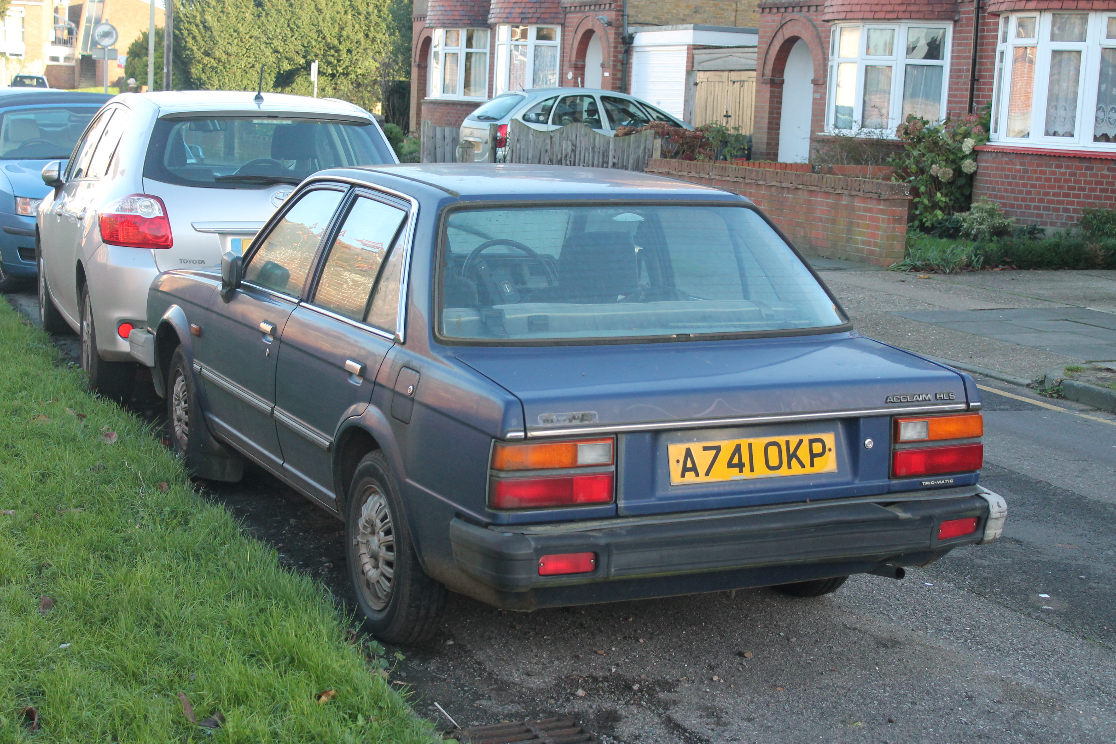 Spotted previously by fellow local Angrydicky, (thanks for the location!) I just had to see this one for myself! It's the first Acclaim on my stream, but you lot seem to be finding these everywhere. This example looked rather well-used, but is in a nice blue colour- a bit different from the beige so many of these seem to be. Unfortunately couldn't get a front shot this time due to it being parked so close to the Corolla. I'll see if I can revisit it another time. How come this car doesn't come up as costing anything to tax? Would the owner be disabled or something? This car wears local plates. Now one of just 26 of this spec on the roads. It's been with its current owner, who I'm guessing is fairly elderly, since August 1996, when I was just one year old. Registration number: A741 OKP ✔ Taxed Tax due: 01 July 2015 ✔ MOT Expires: 28 June 2015